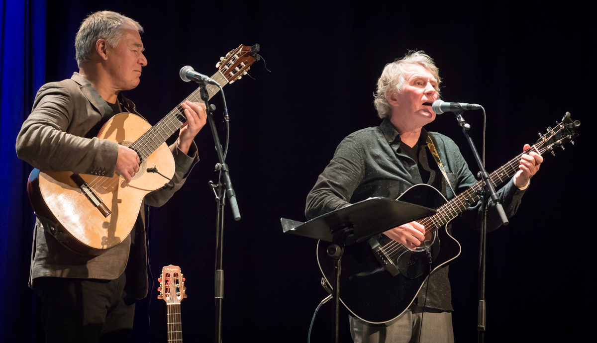 Rudolf Nilsens songs and poetry, performed at the stage of Cosmopolite. The concert took place on 10. December 2016 in Oslo. Lineup: Jon Arne Corell (guitar / vocal) Kari Svendsen (guitar / vocal) Lars Klevstrand (guitar / vocal) Steinar Ofsdal (flute) Carl Morten Iversen (double bass)